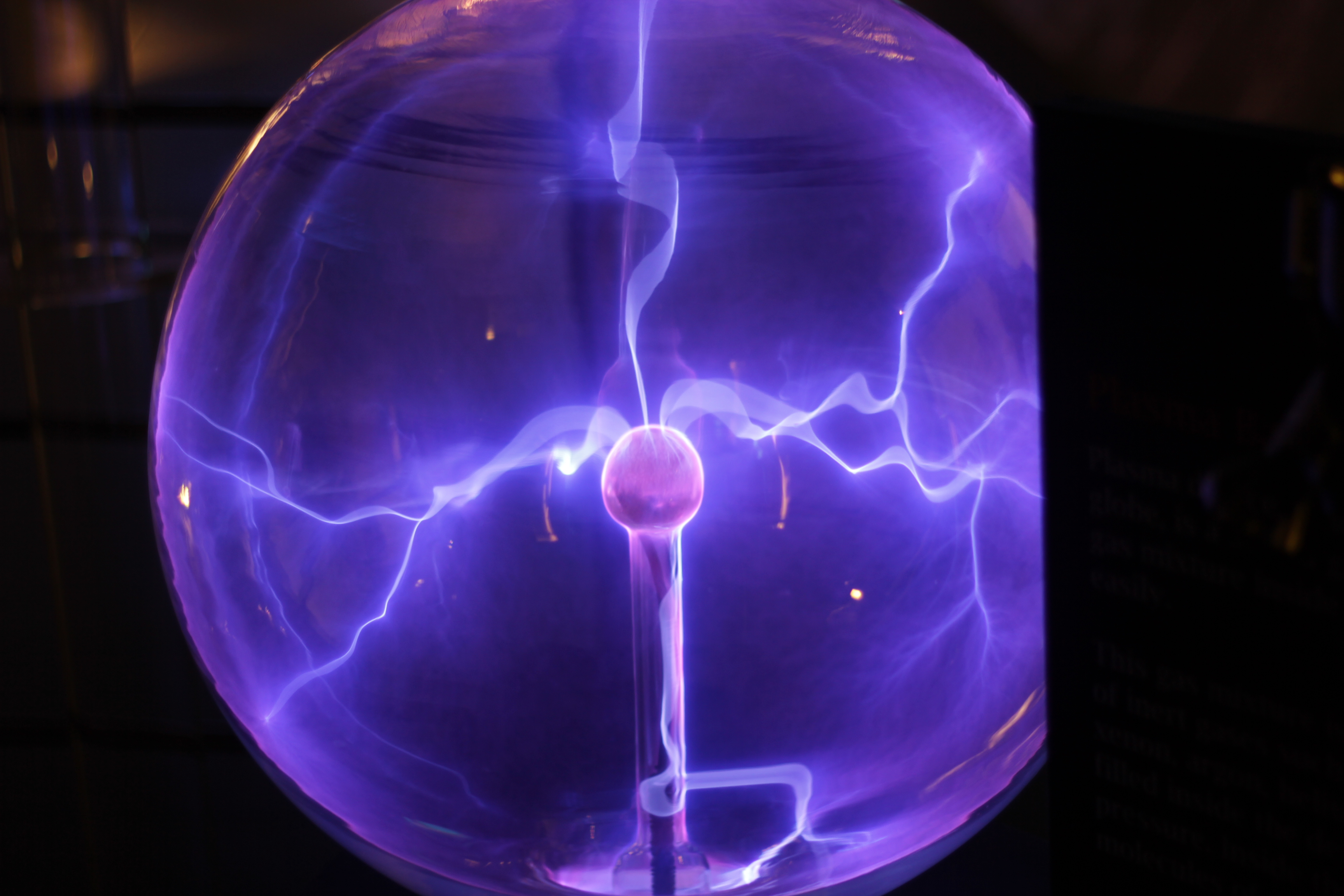 Experiments in Electrodom Room